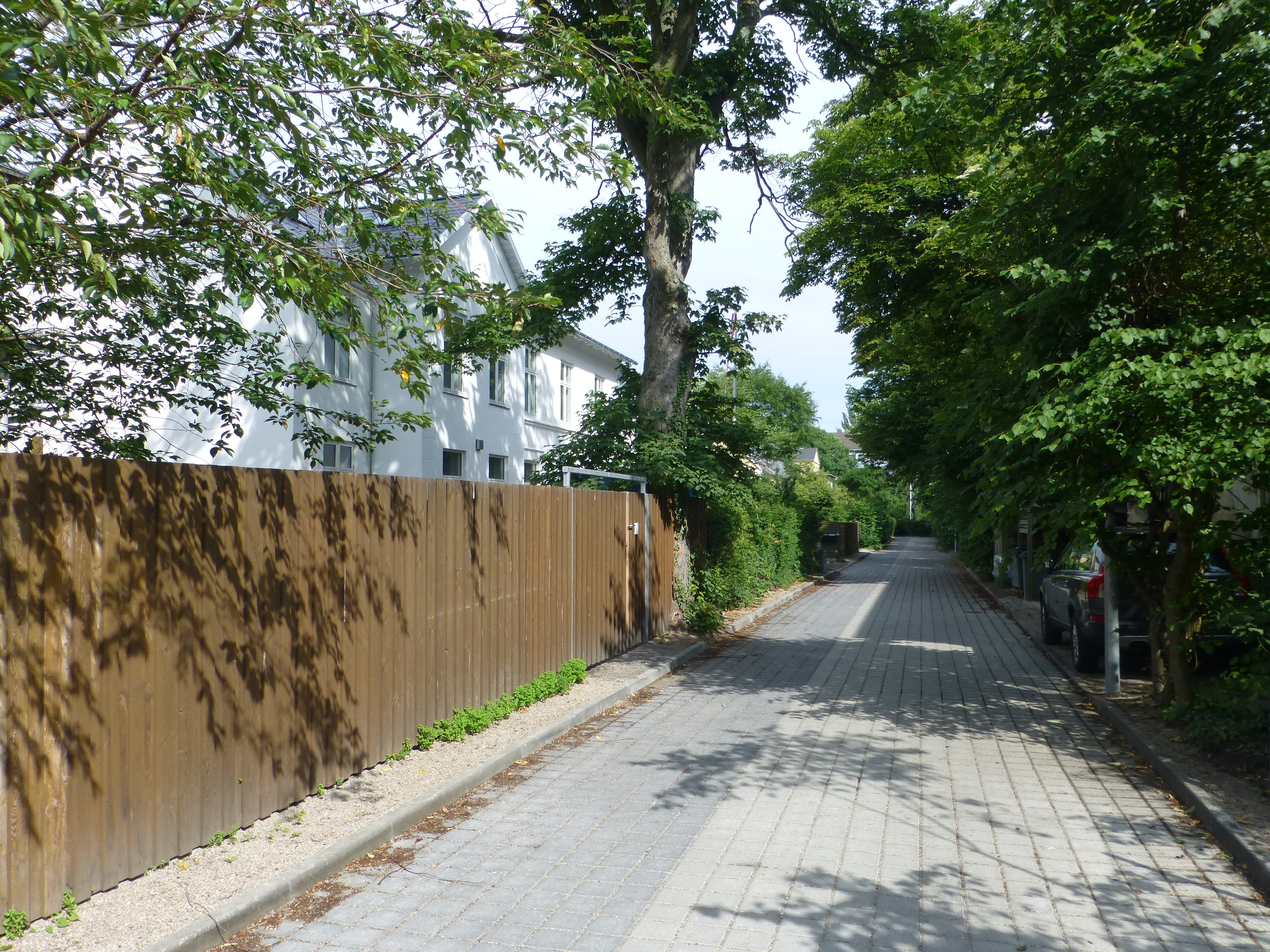 The street Helenevej in Frederiksberg in Copenhagen.